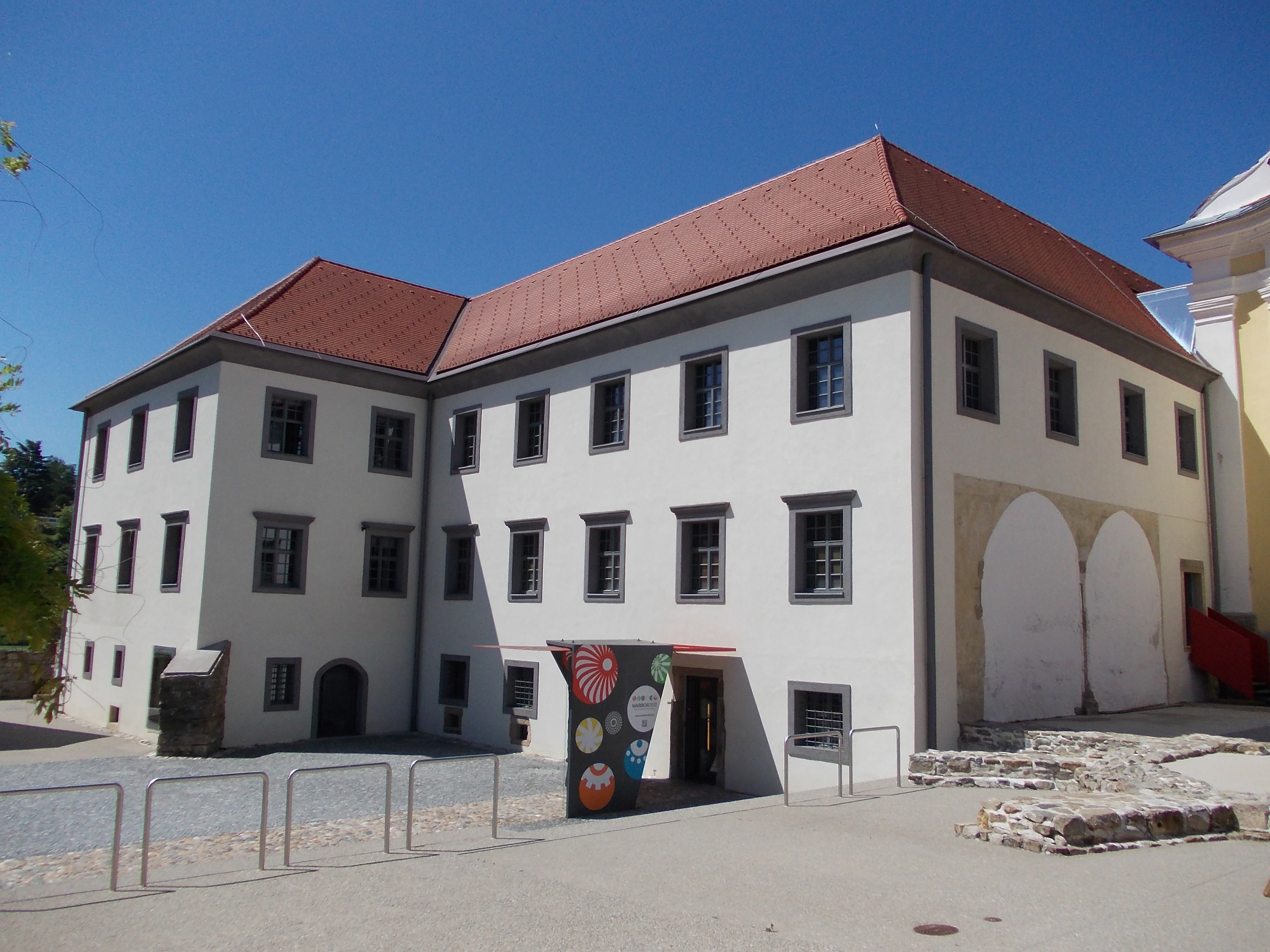 Minorite Monastery of Maribor